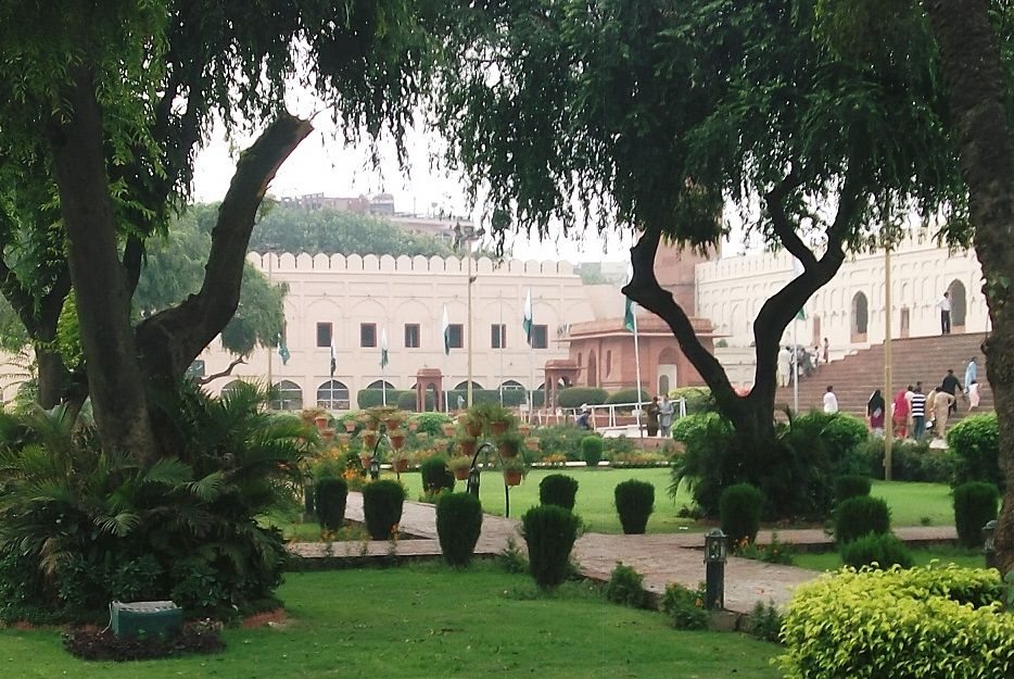 Tomb of Muhammad Iqbal, national poet of Islamic Republic of Pakistan. He was born in Sialkot on November 9th, 1877 and died on April 21st, 1938 in Lahore.